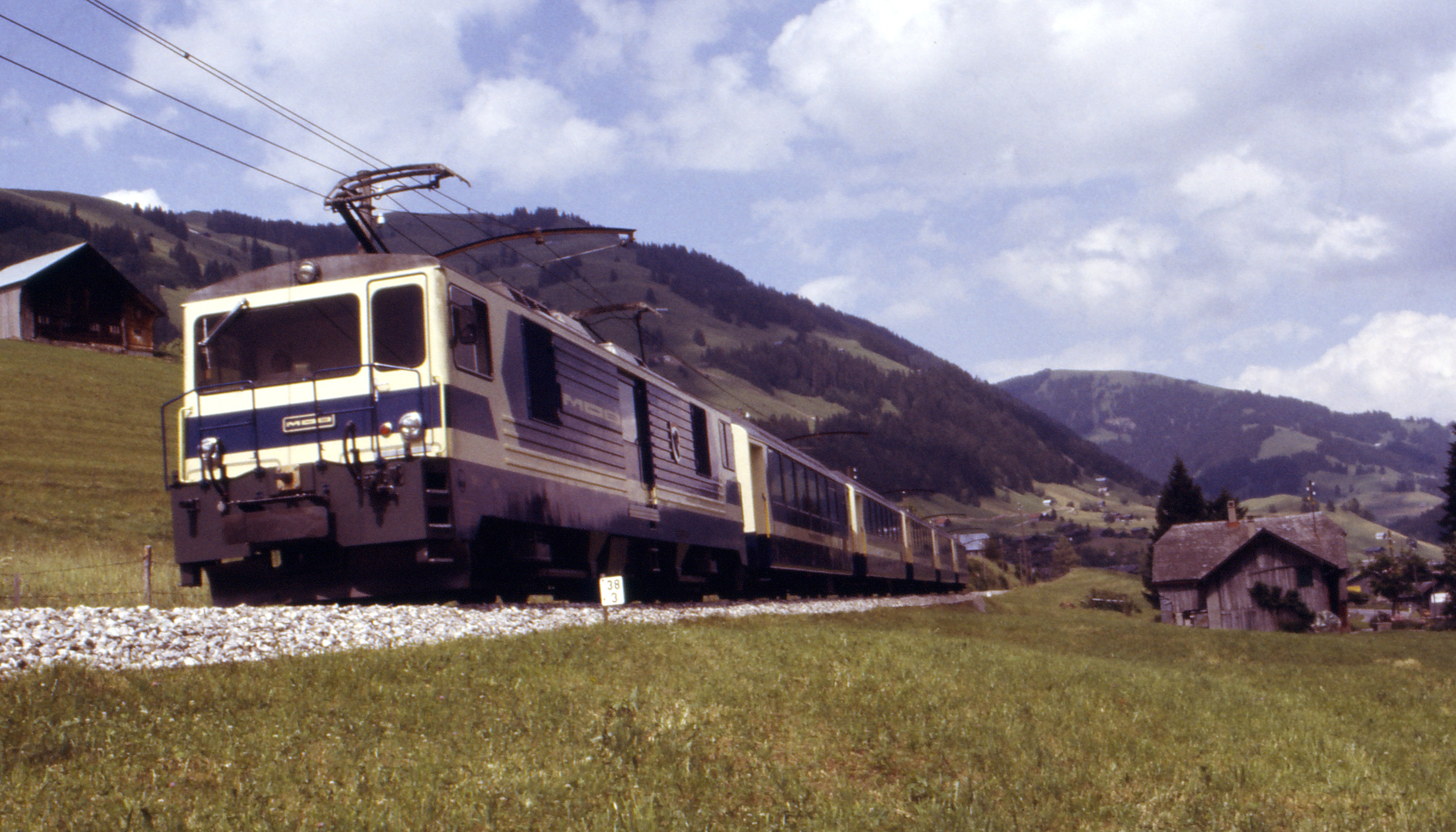 GDe 4/4 with Panoramic express